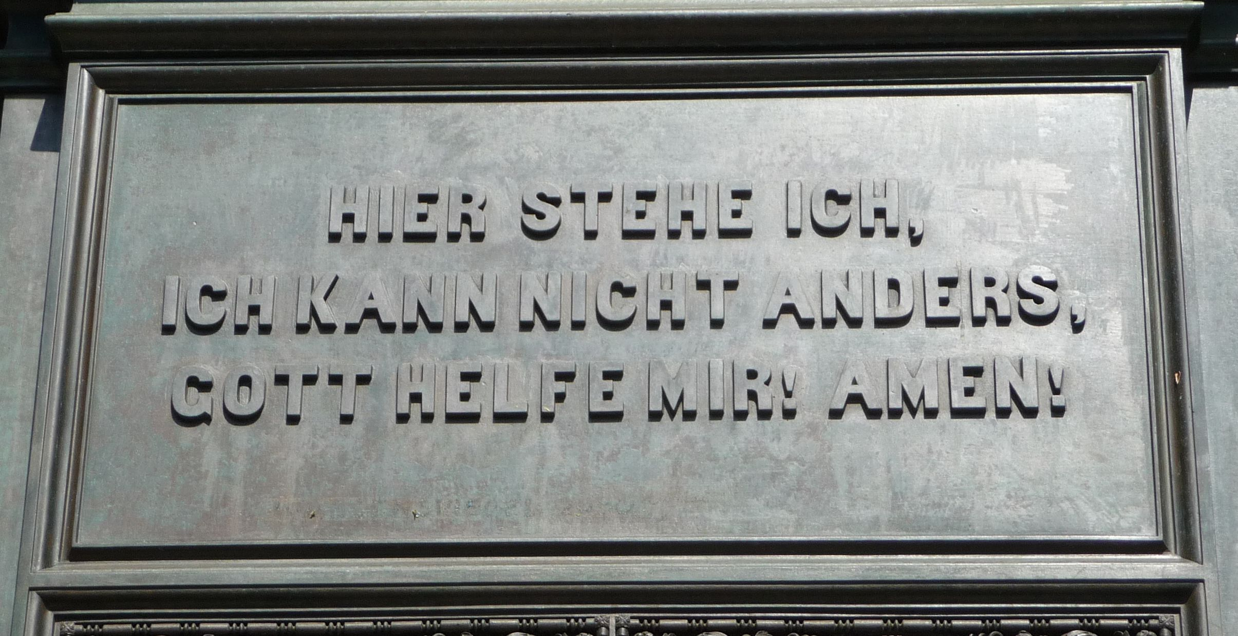 Lutherdenkmal (Worms)